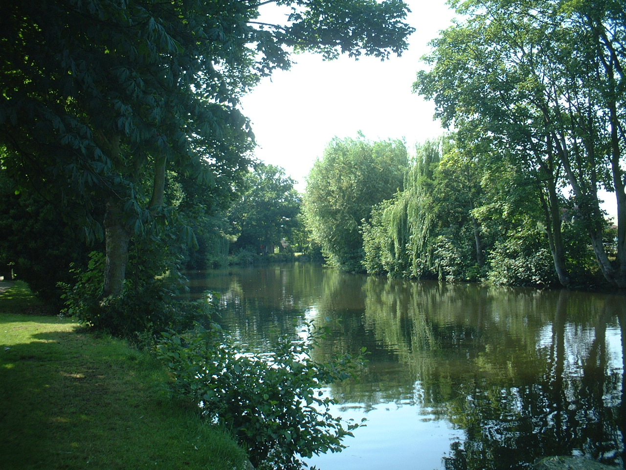 The river Wensum in Norwich, England, seen looking west in a tree-lined area roughly north of Bishopgate. Photo taken on a FujiFilm Finepix 40i digital camera by Paul Hayes in 2005, and uploaded to Wikimedia by same.